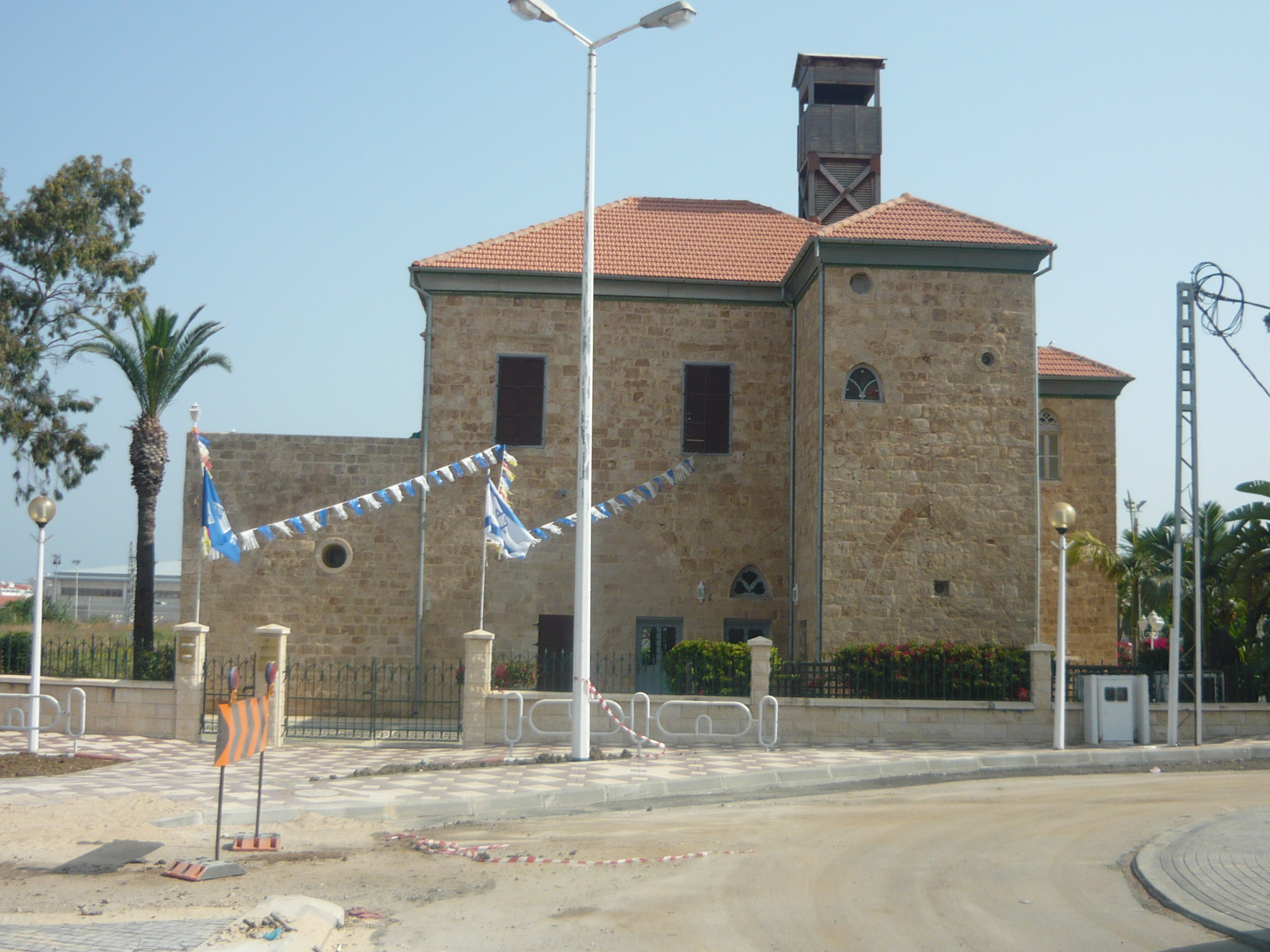 Lieberman house - municipal museum in Nahariyya בית ליברמן, המוזיאון לתולדות העיר נהריה